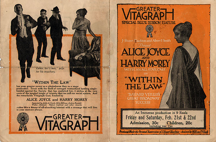 Advertising circular for a 1917 movie version of Within the Law with Alice Joyce.